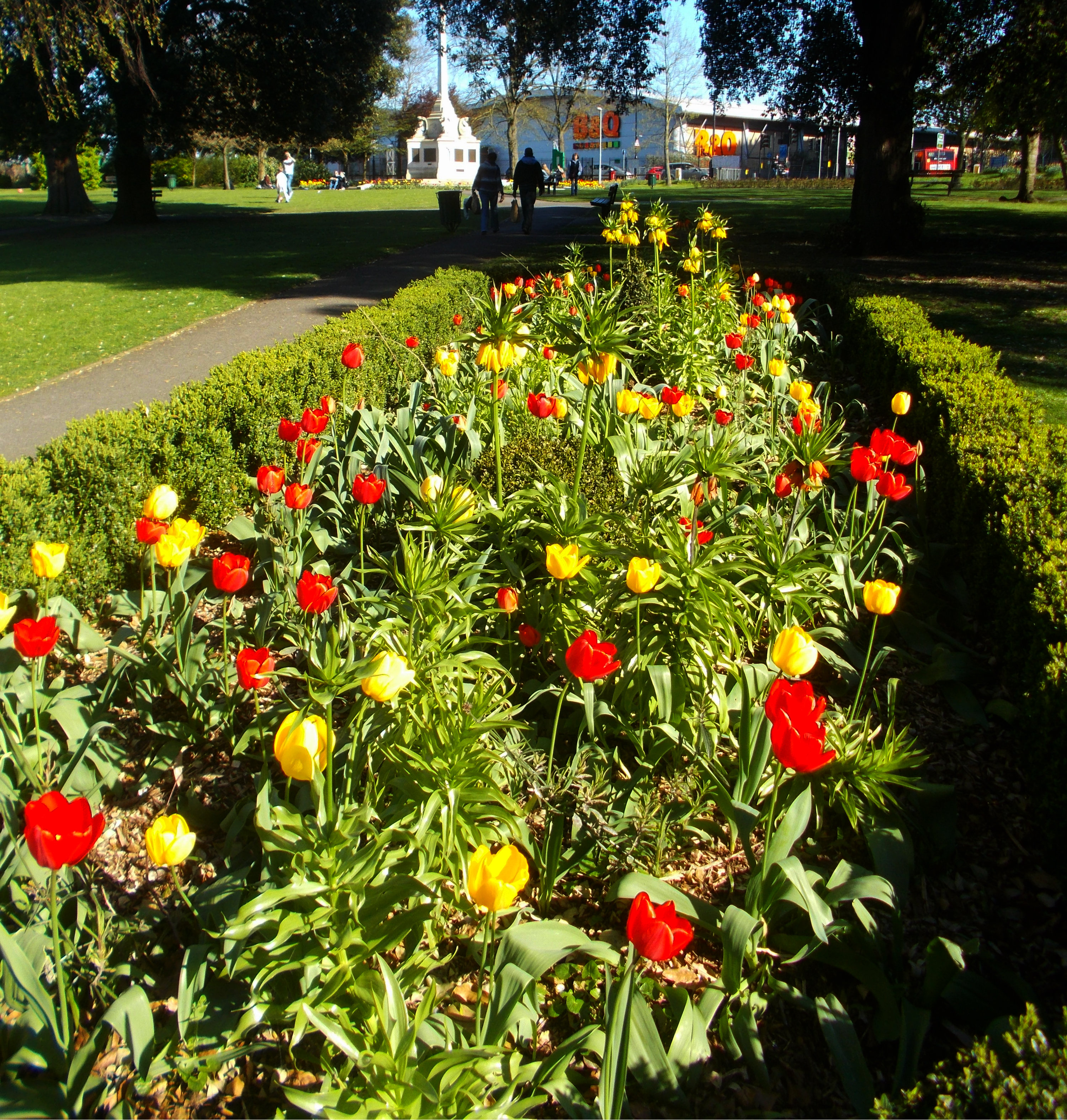 Manor Park is an attractive small town centre park. It contains an iconic fountain and the Sutton War Memorial.